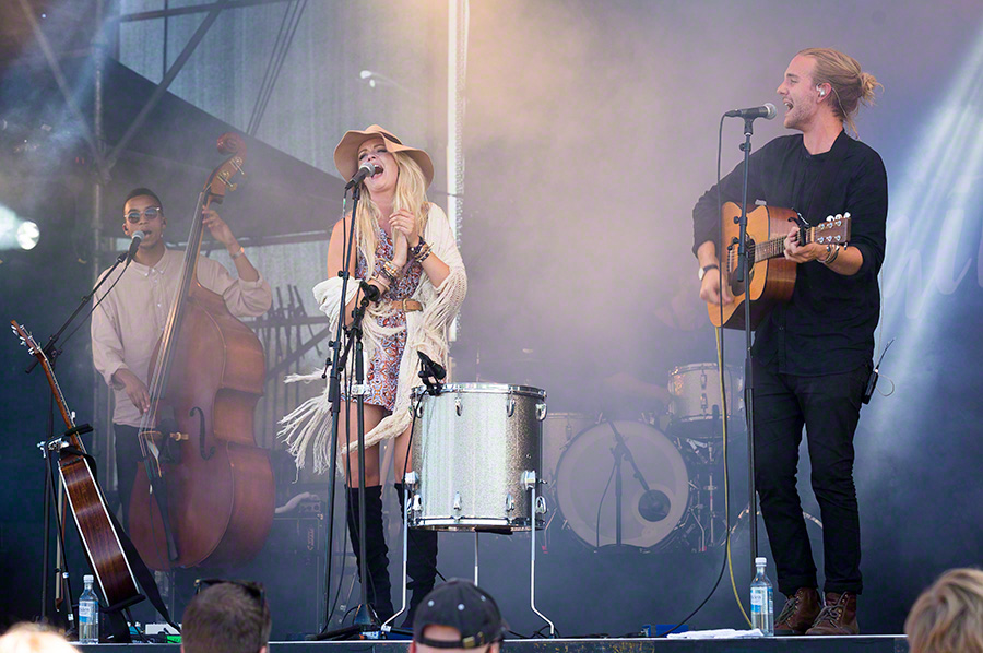 Smith & Thell at the minor stage during Stavernfestivalen in Stavern on 09. July 2016. Lineup:Maria Jane Smith (vocal)Victor Thell (guitar / vocal)Unidentified (double bass)Unidentified (keyboard)Unidentified (percussion)Unidentified (bass)